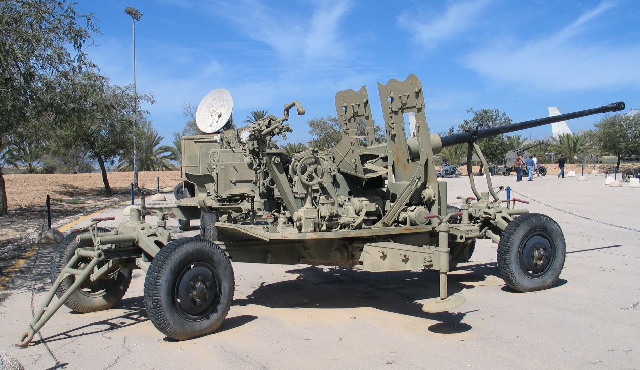 Description: Soviet S-60 57 mm AA gun at Muzeyon Heyl ha-Avir, Hatzerim airbase, Israel. 2006. Source: Photo by me, User:Bukvoed.